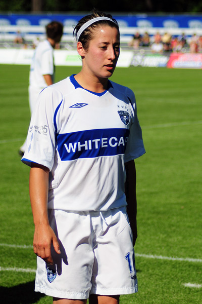 Photo of soccer player, Katie Thorlakson.